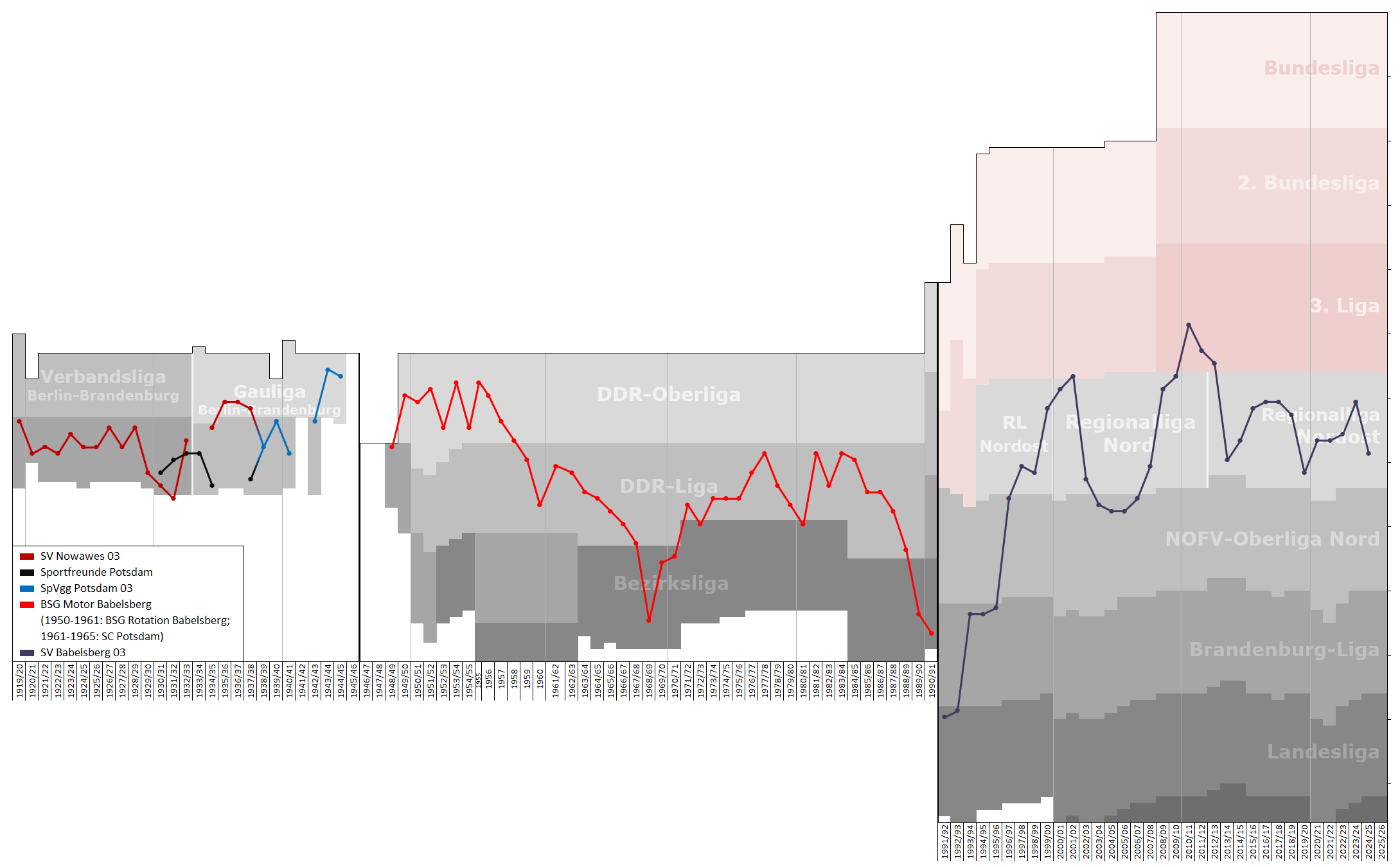 Chart of end-season table positions of SV Babelsberg in the football league system of Germany and GDR. Data source: RSSSF, wikipedia, f-archiv.de, fussball.de